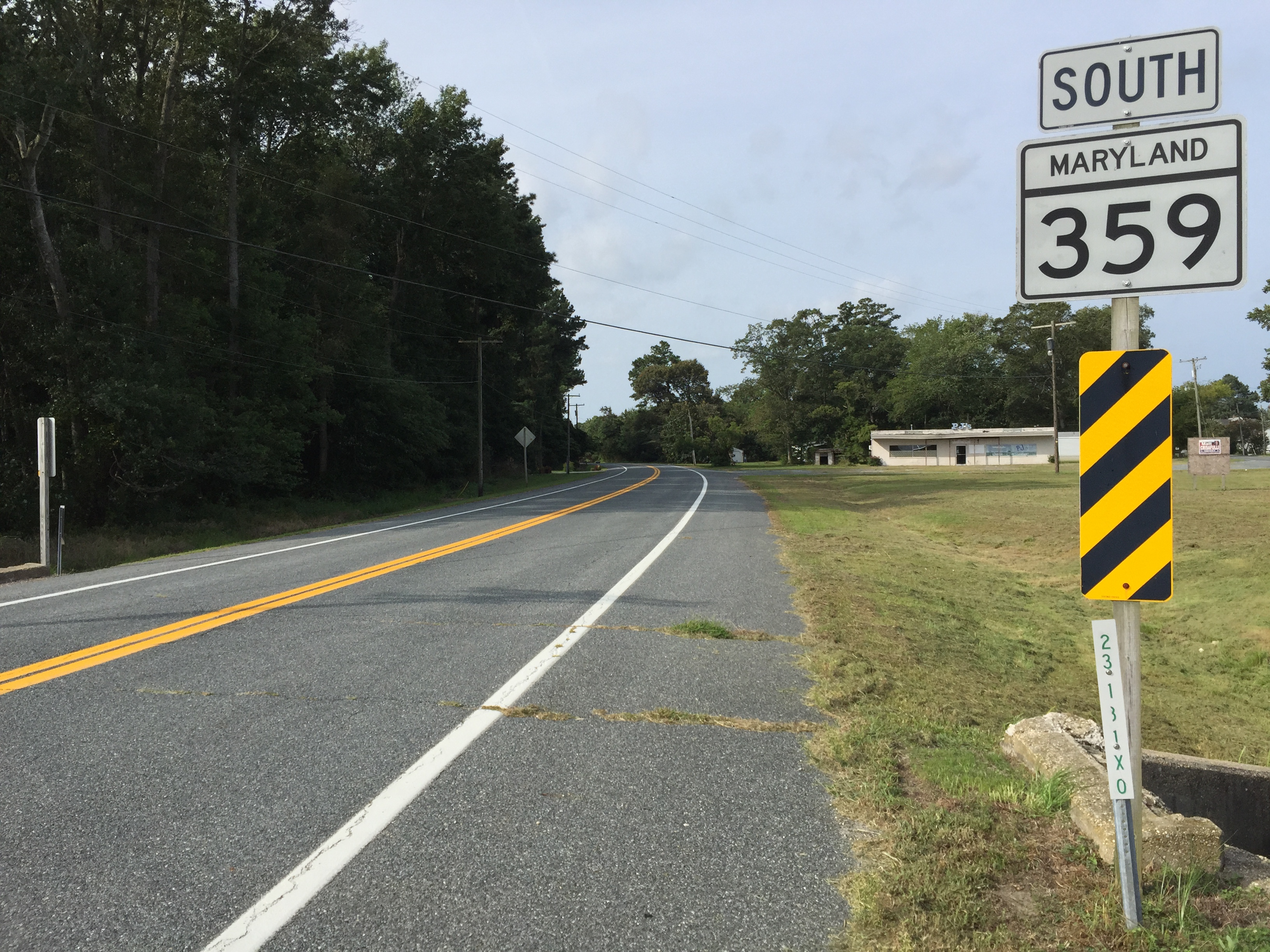 View south along Maryland State Route 359 (Bypass Road) at Maryland State Route 756 (Old Snow Hill Road) just northeast of Pocomoke City in Worcester County, Maryland